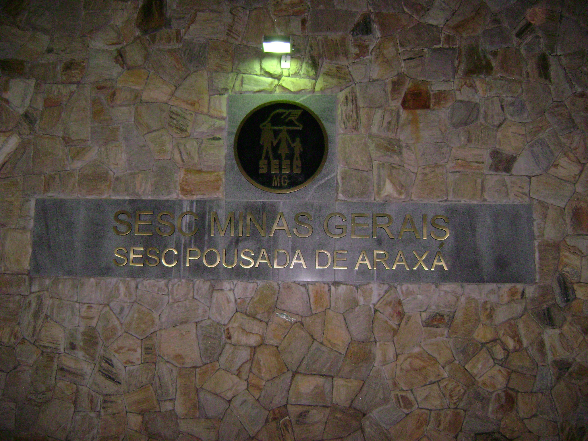 Inscrição na entrada do SESC Araxá, em Araxá, Minas Gerais, Brasil.